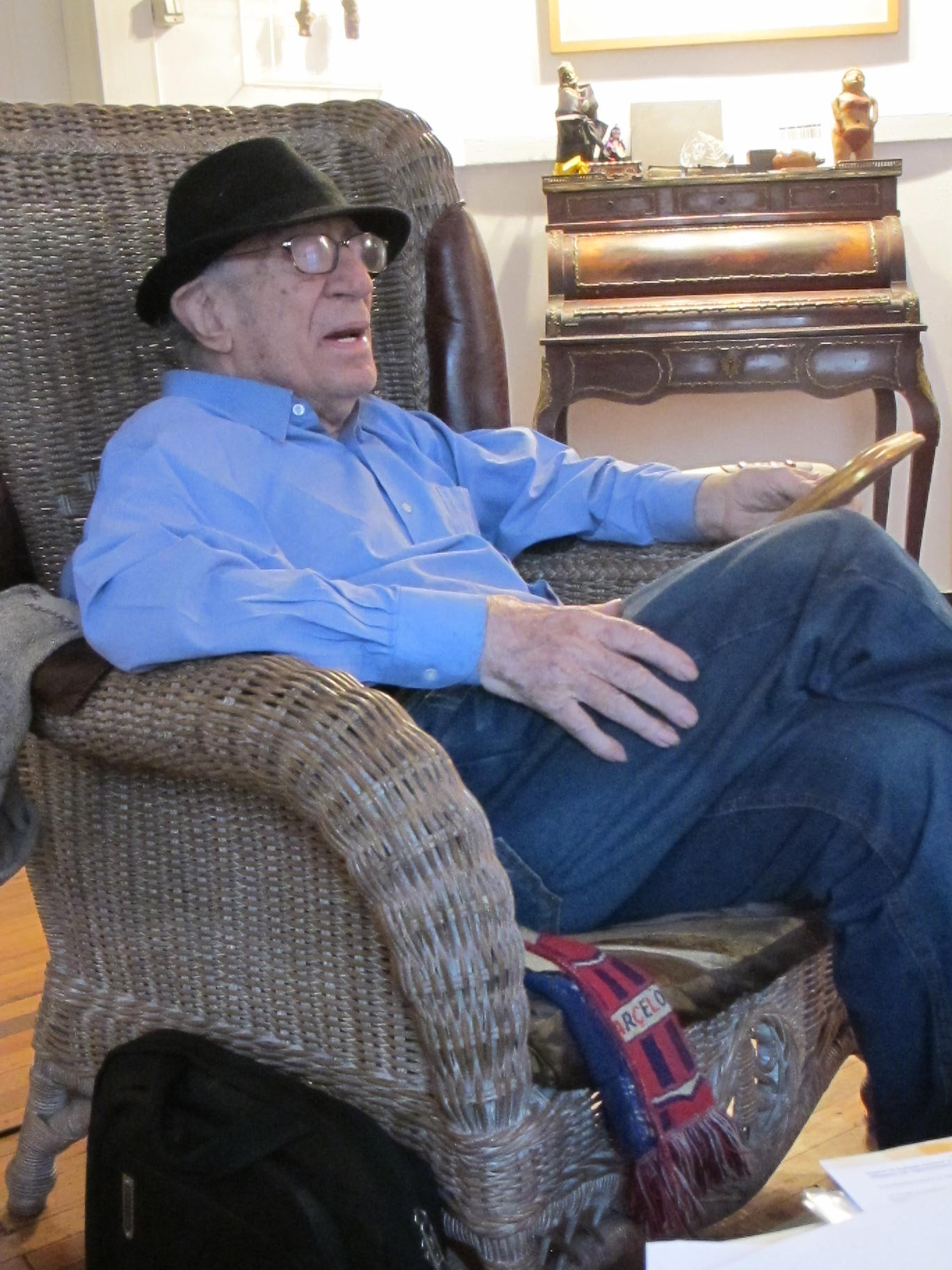 Jose Balmes